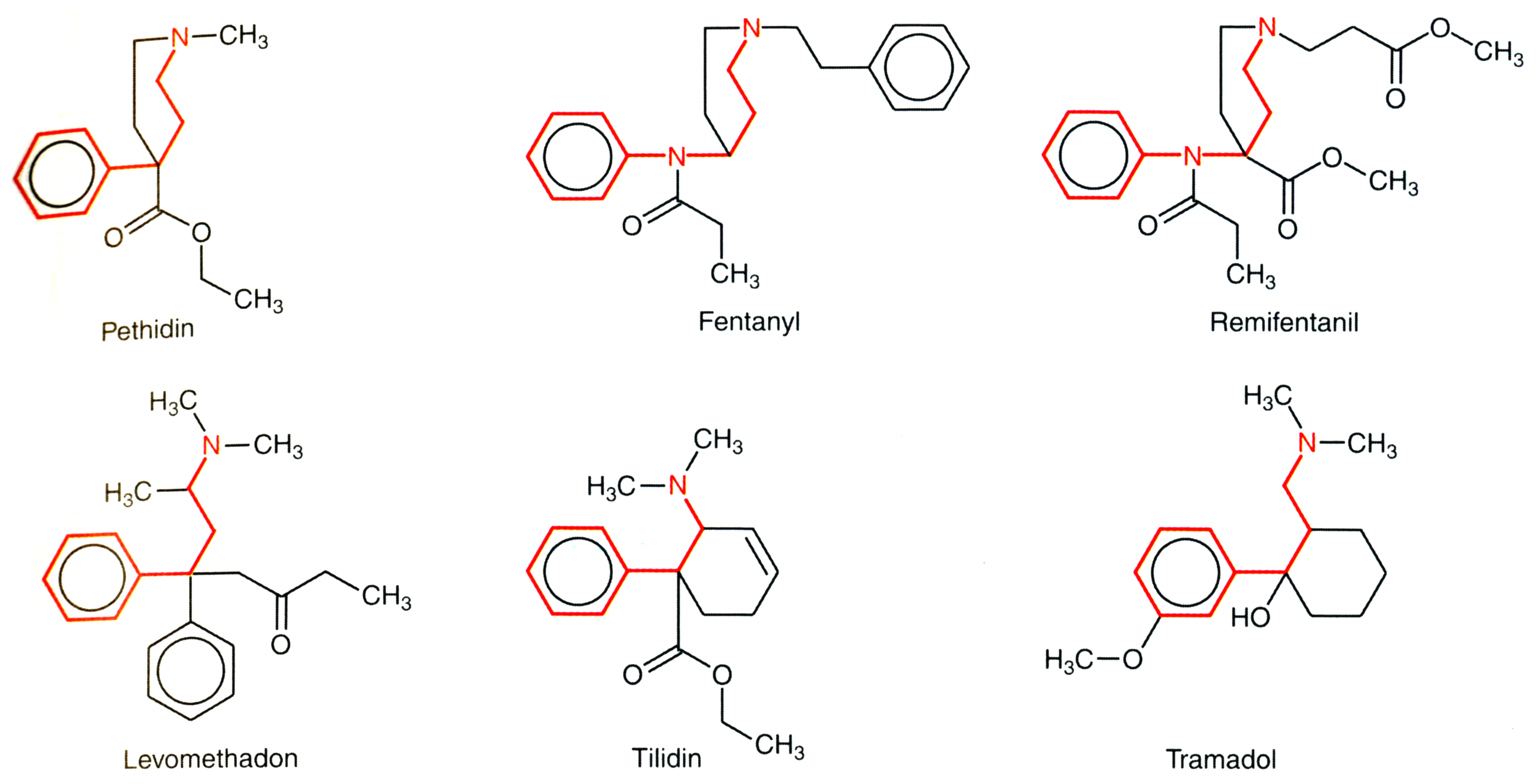 Chemical formulas of synthetic opioid agonists